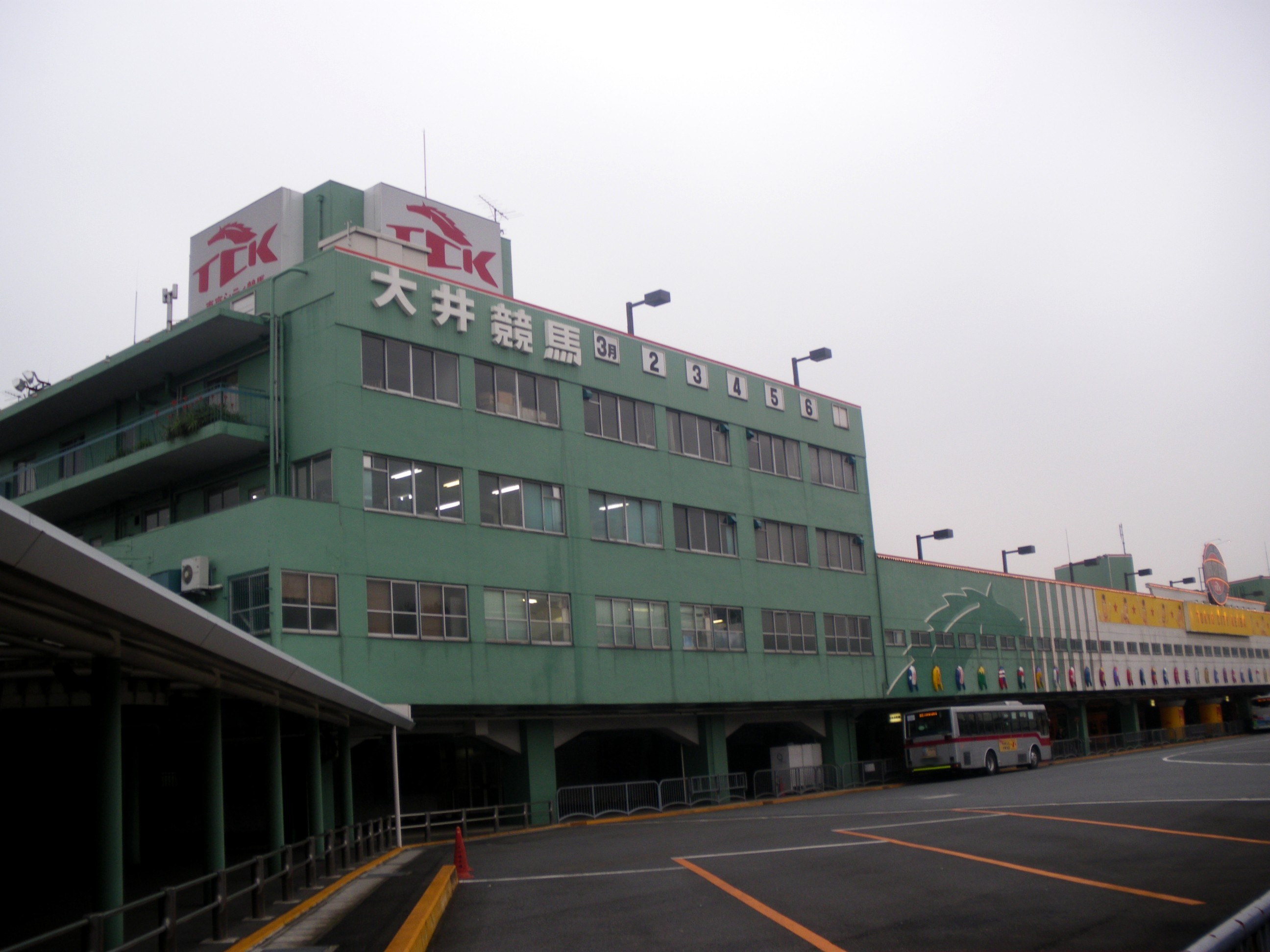 the main entrance of Oi Race Course